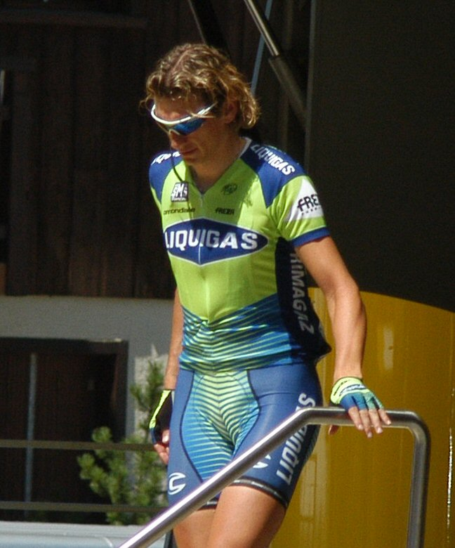 Filippo Pozzato at the start of stage 8 in Le Grand Bornand, Tour de France 2007.